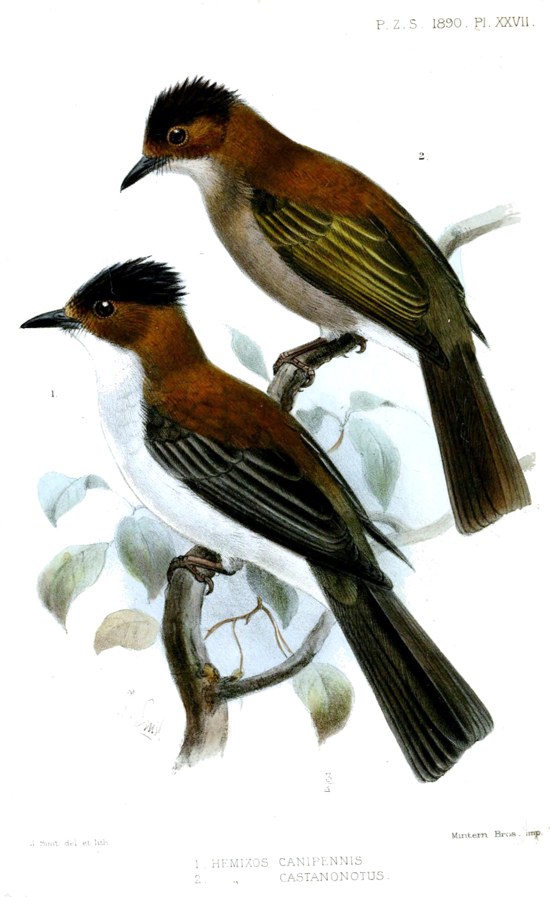 Chestnut Bulbul, adults